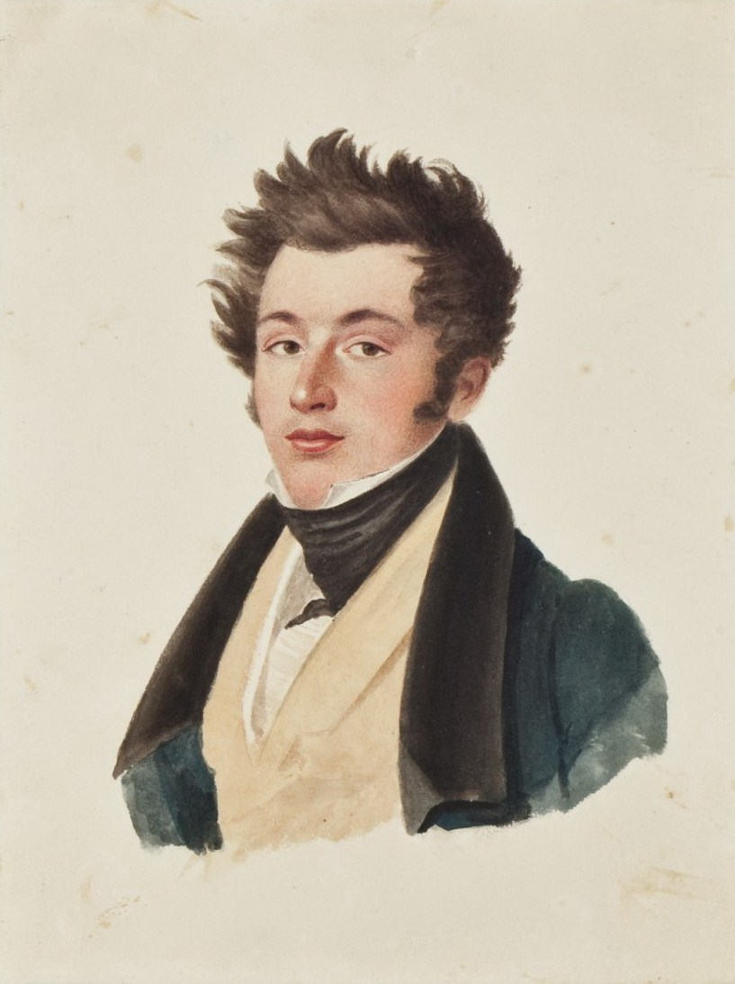 The Middleton Watercolor Album consists of a collection of 45 watercolor portraits bound in leather covers with neo-gothic embossing and a gilt bronze clasp in the same style. The album relates to the Middleton family of South Carolina, from which it descended until Hillwood purchased it in 2004. Williams Middleton—who was secretary to his father, Henry Middleton, the American minister to St. Petersburg from 1820 to 1830—assembled this album. The artist of many of the watercolors, most of which are unsigned, is likely Middleton's sister, Maria Henrietta, who studied painting during her years in St. Petersburg with her governess, Madame Mathes, who also painted miniatures. Two watercolors, including this portrait of the Countess Bobrinsky, are signed by the well-known Russian watercolorist Petr Sokolov. The portraits are of Russians and people in the foreign community who were close associates of the Middleton family. Their portraits provide an extraordinary commentary on the fashion and hairstyles of the 1820s.